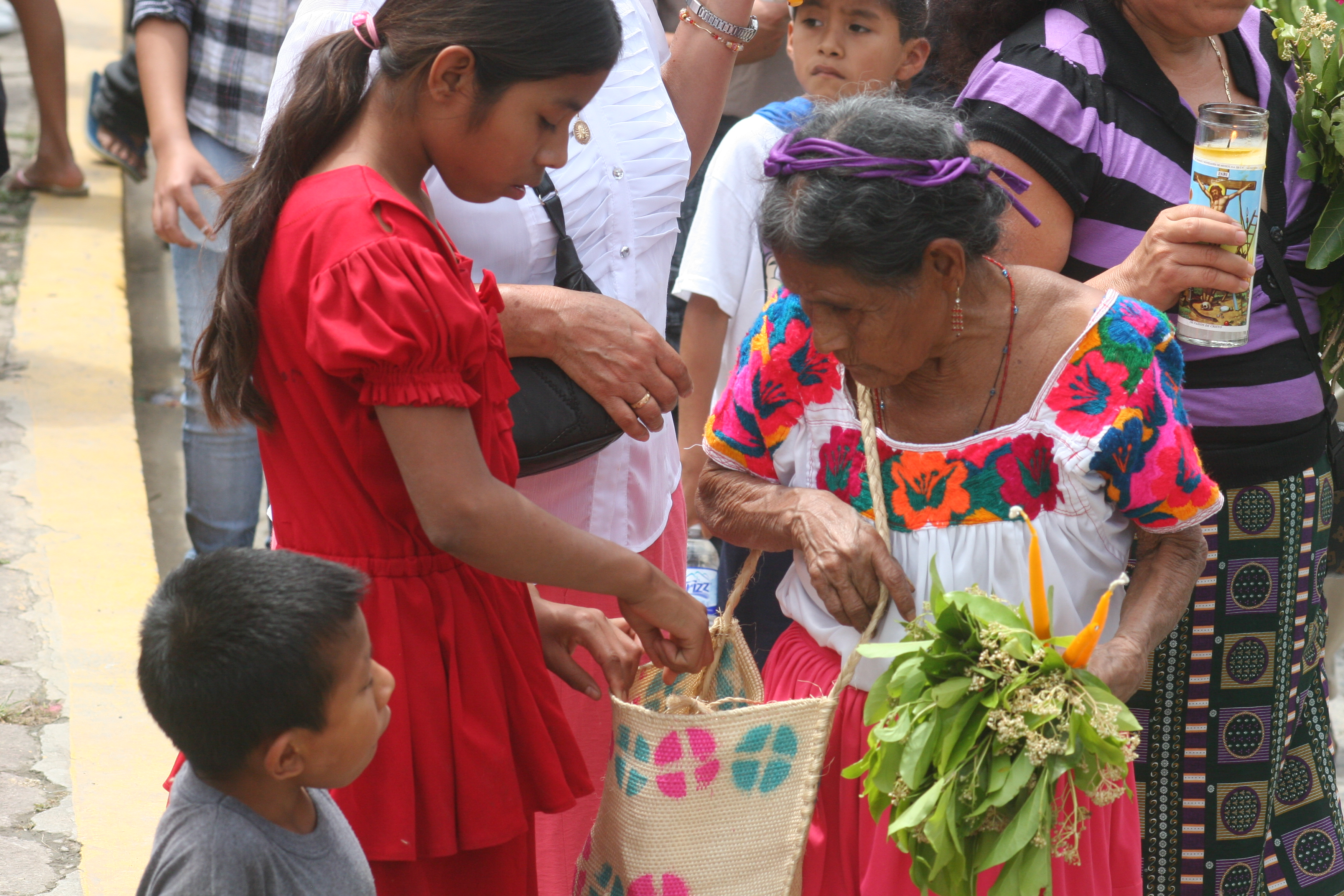 Indigenous family carrying flowers during the Mexican Holy Week in the town of Huejutla in Hidalgo, Mexico.